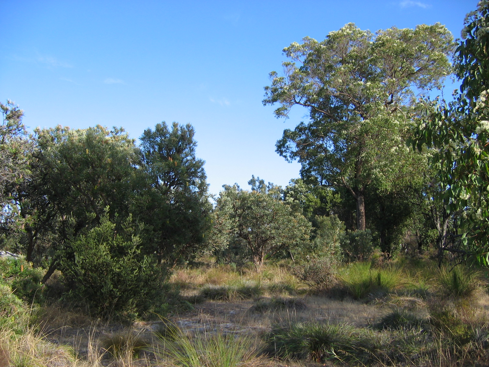 Forest at western edge of Cullacabardee, just inside Whiteman Park.